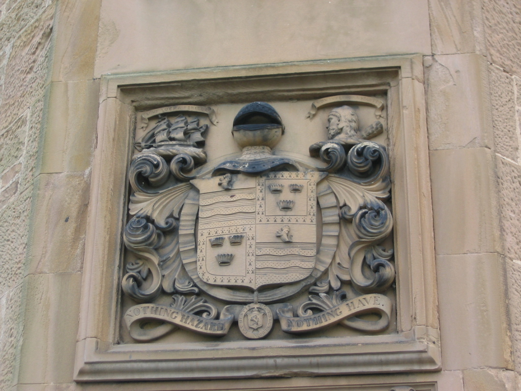 Arms of the Grant-Suttie family, Prestongrange House, East Lothian, Scotland